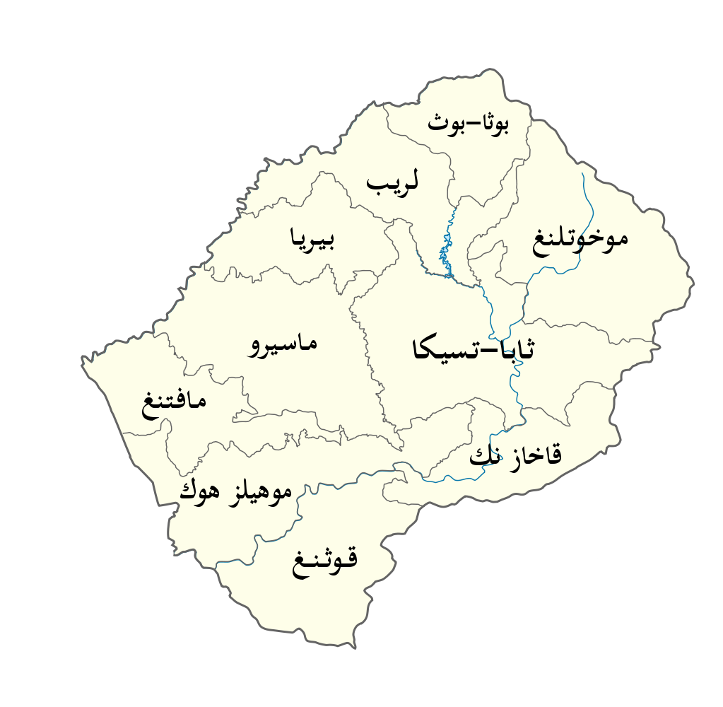 Location map of Lesotho Equirectangular projection. Geographic limits of the map: * N: 28.33° S * S: 30.89° S * W: 26.74° E * E: 29.62° E